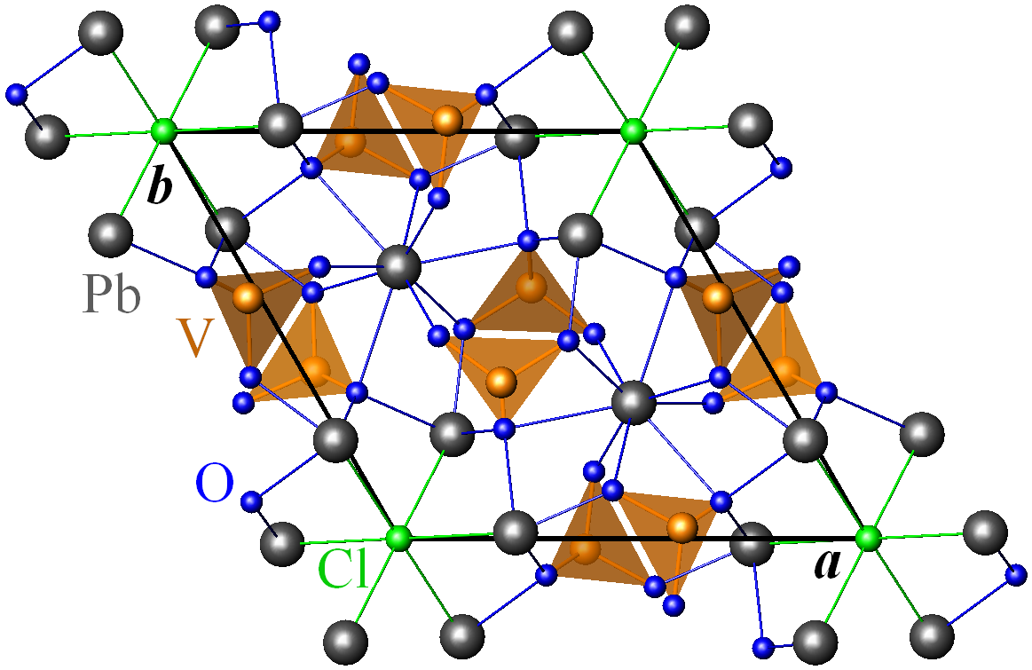 Crystal structure of vanadinite. Gray: lead atoms, orange: vanadium atoms, green: chlorine atoms, blue: oxygen atoms.